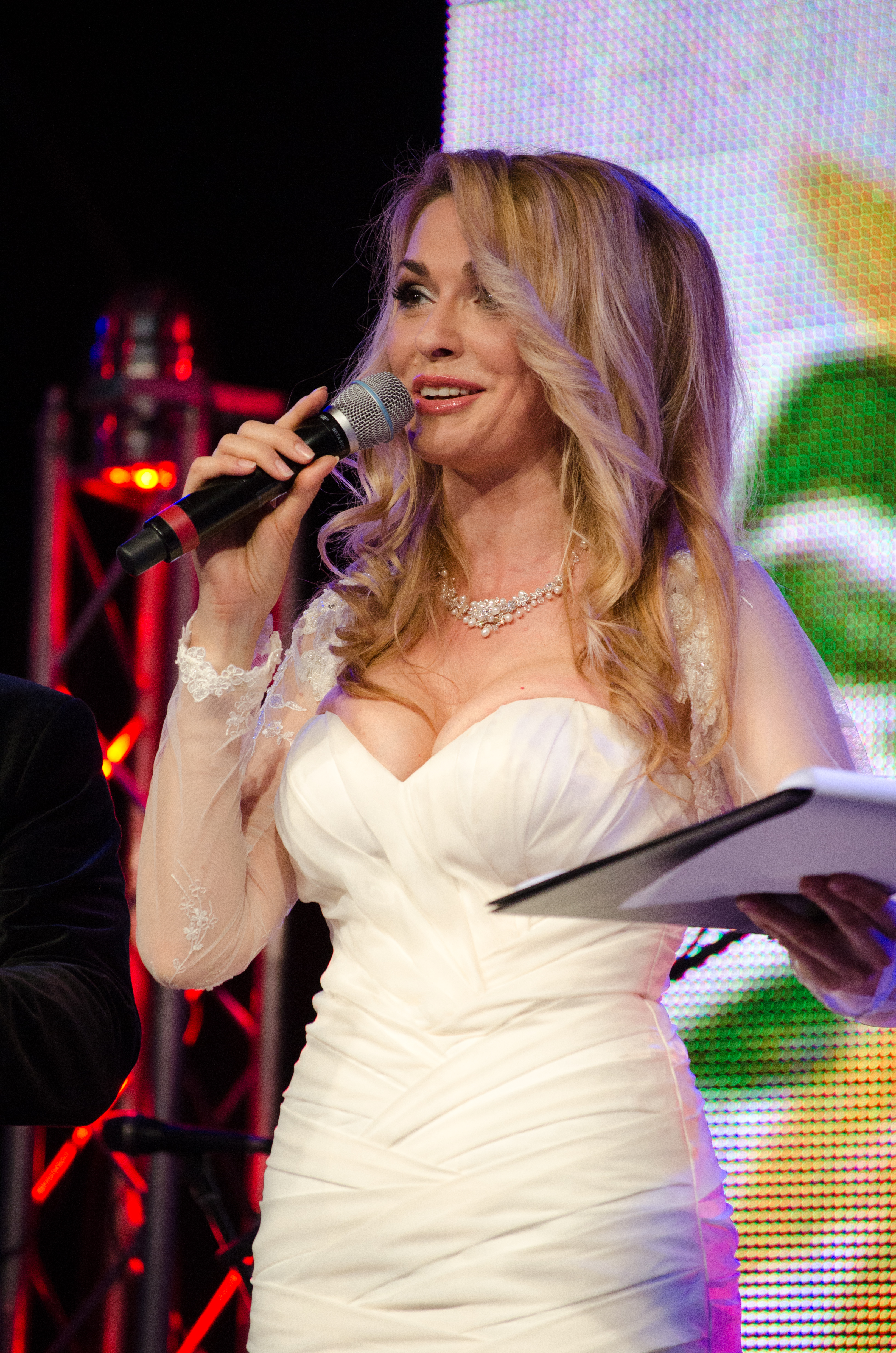 Koronatsiya Slova 2013 literature awards ceremony, Kiev, Ukraine